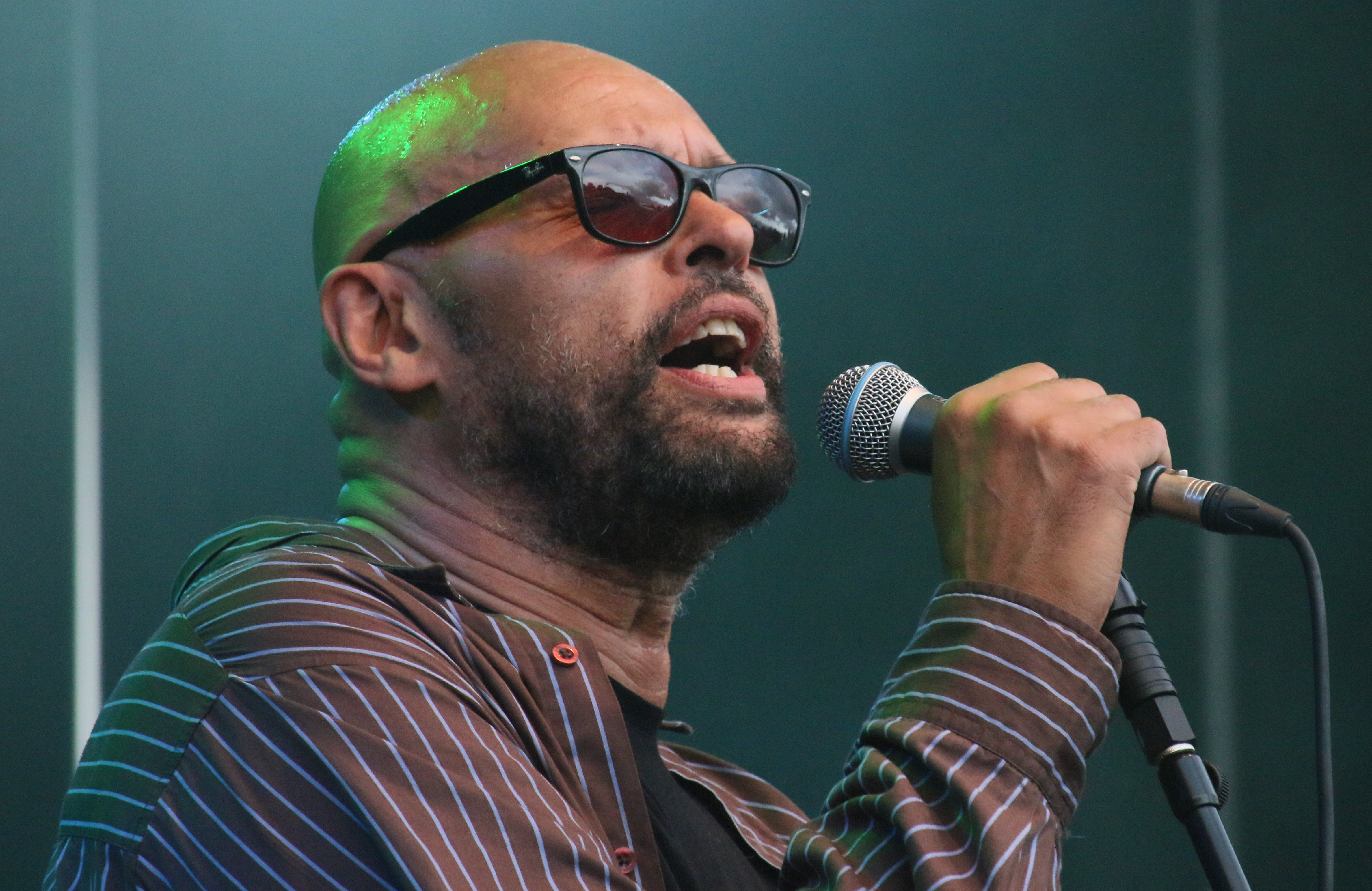 Garry Christian at the Shrewsbury Festival 2016